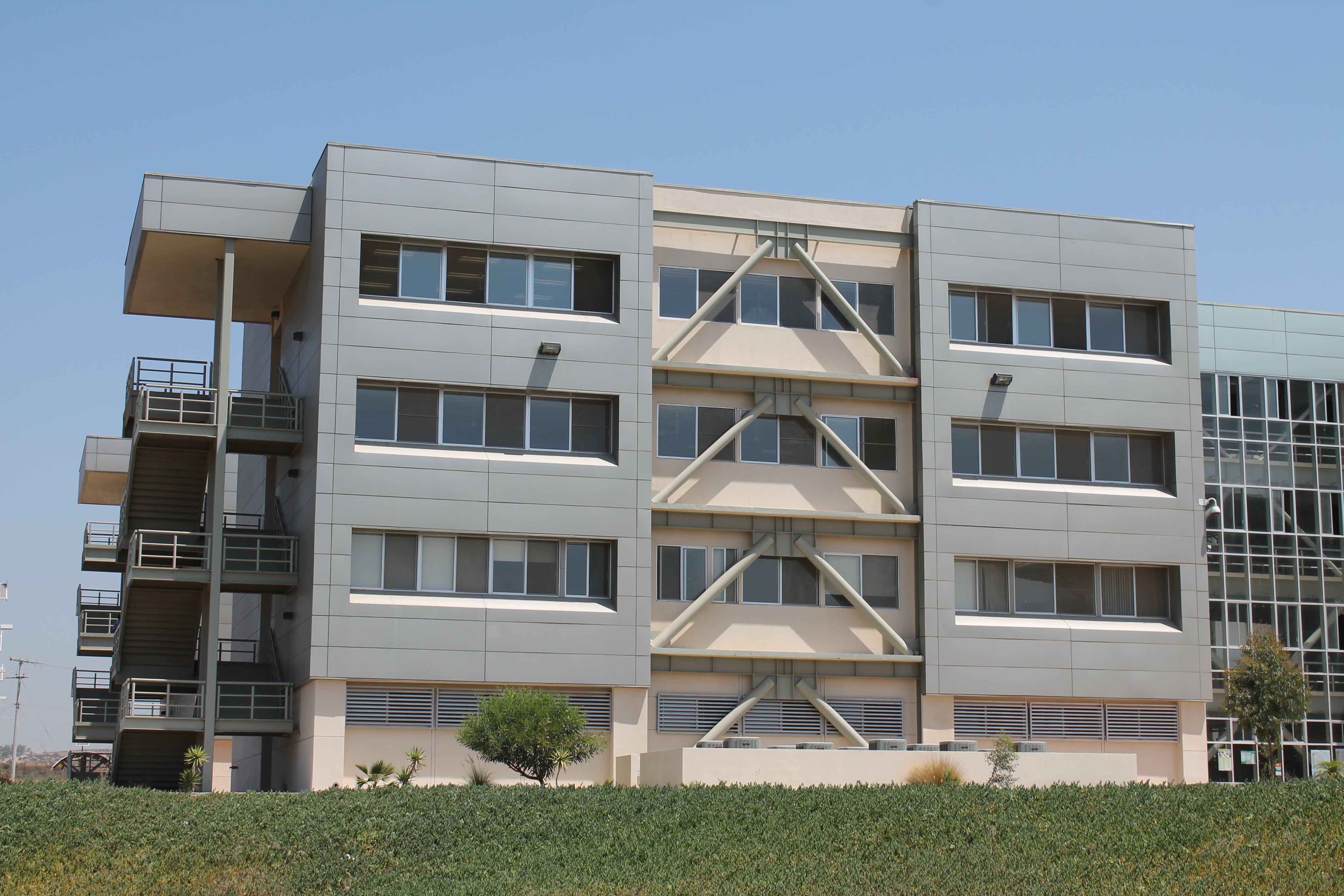 Building of hosting the classrooms and lab halls for CITEC